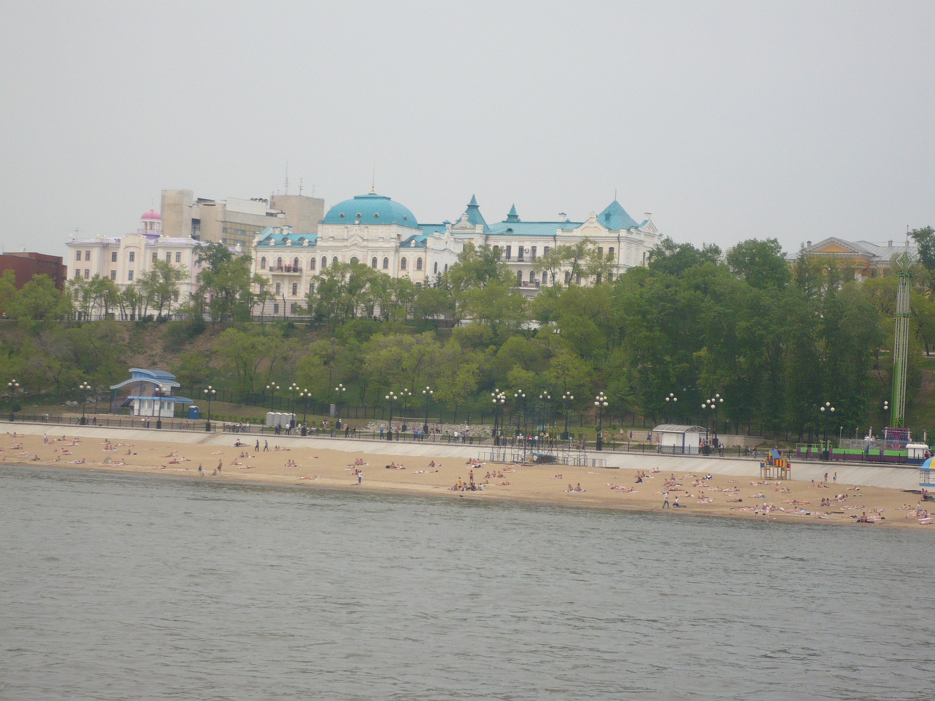 View of Habarovsk from Amur River